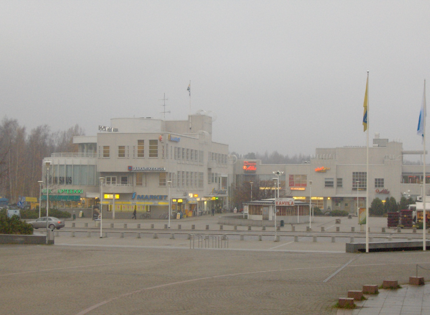 Ulappatori, a small shopping mall in Espoonlahti, Espoo, Finland. Demolished 2010.